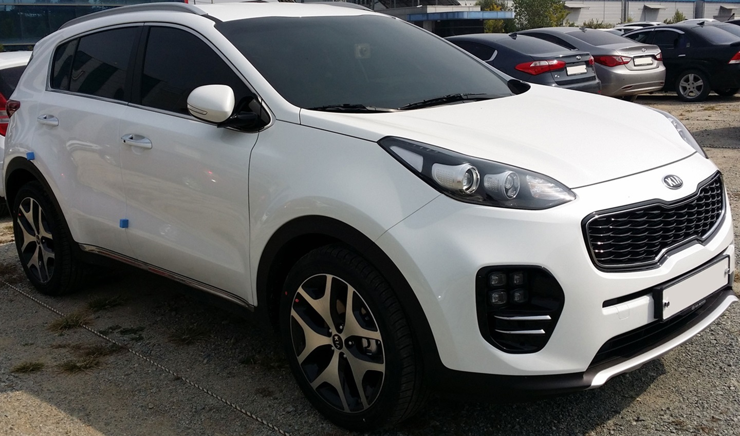 Kia Sportage